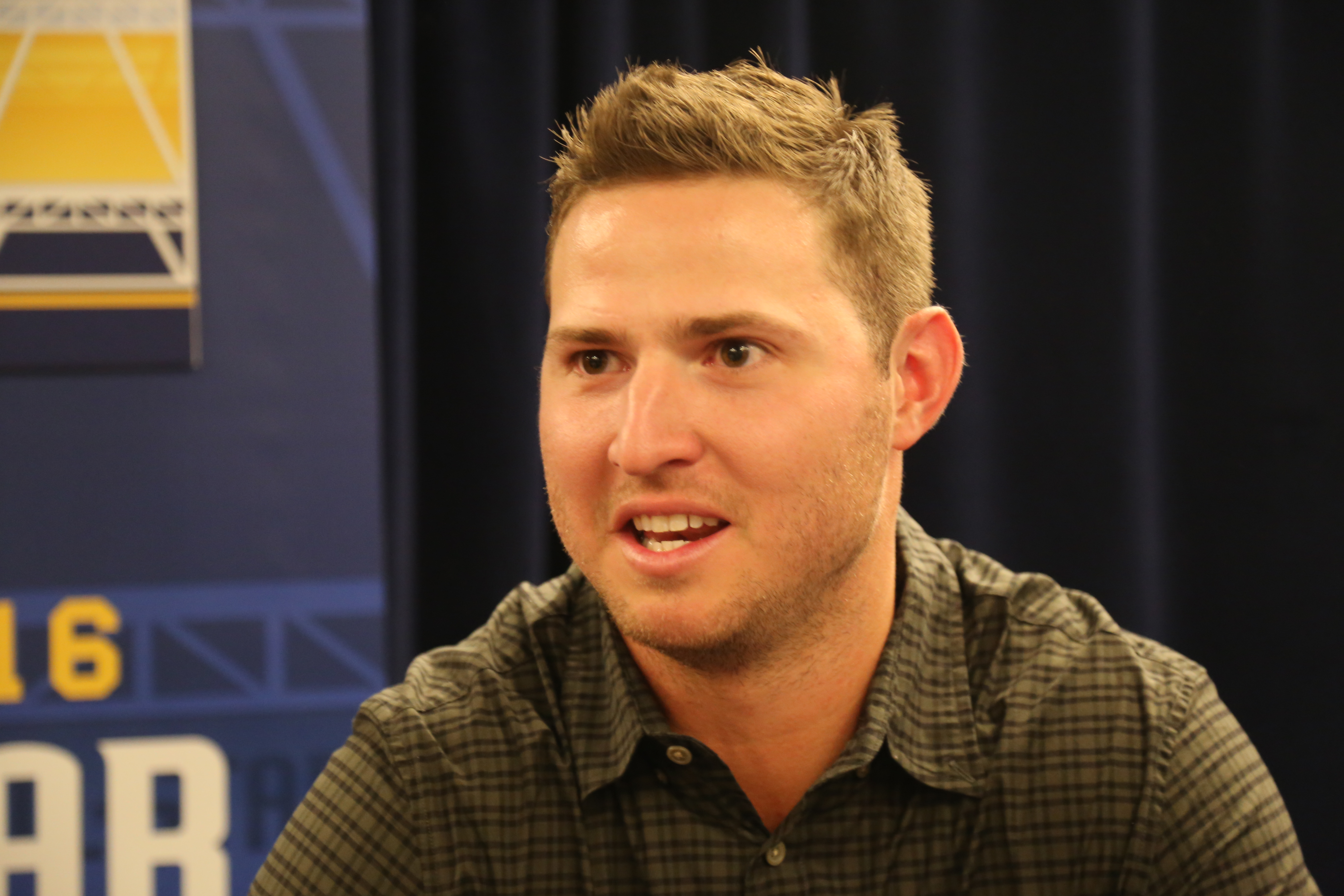 Orioles pitcher Zach Britton talks to reporters at 2016 All-Star Game availability.